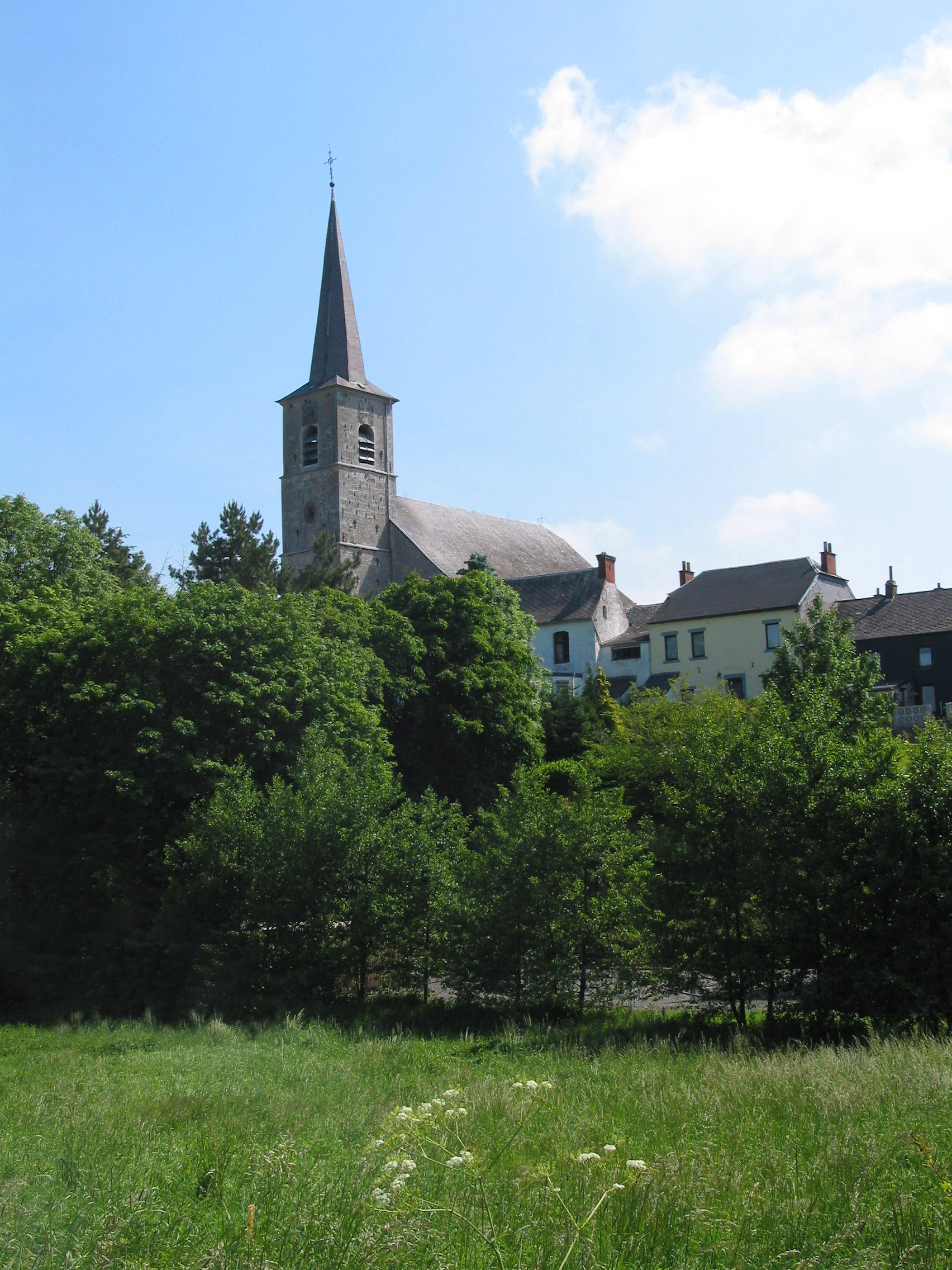 Froidchapelle (Belgium), the St. Aldegonde church (XVI-XVIIIth century).